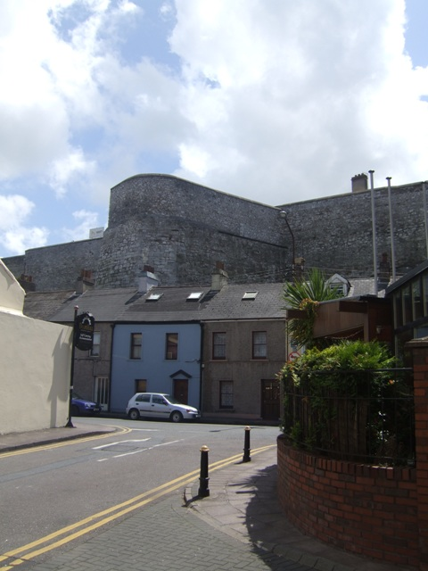 Elizabeth Fort An earth banked fort was built for Queen Elizabeth to protect the city walls. With the accession of James I it was demolished by the citizens to prevent it being used against them. Lord Mountjoy took the city and forced the citizens to rebuild the fort in stone as can be seen today. It was completed in 1624. The next action took place in 1689 with the fort's capture by Irish forces and then capitulating after Cork's city walls were breached in 1690. It remained as a barracks, acting as a prison for women convicts in the 1840s. It was used by British forces and by 'Black & Tans' after the Great War. The internal buildings were burnt out during the Civil War. It is now used by the Garda and limited access is allowed to the walls. As with a number of forts built in Ireland the major problems were topography and improvements in artillery. Whereas originally it protected the city walls it became vulnerable to more effective artillery placed on higher ground. Another fort, Cat Fort, was built to provide protection but this was easily over-run.